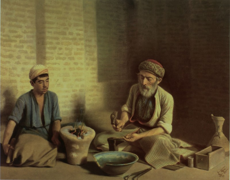 Goldworker in Baghdad